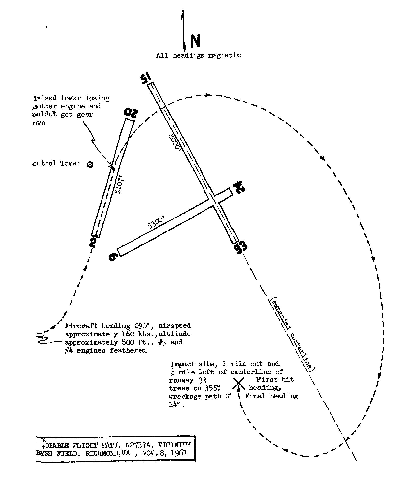 Crash diagram of Imperial Airlines 201/8